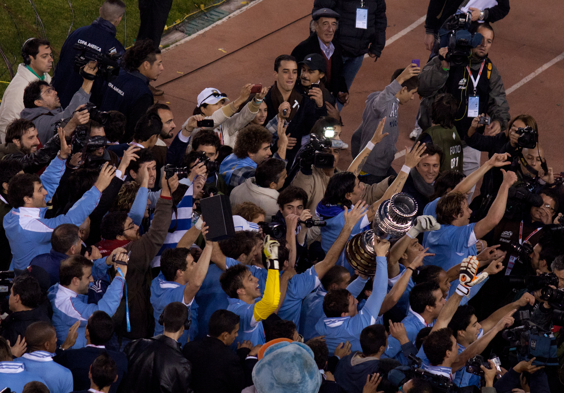 Uruguay players giving a "vuelta olimpica" around the Monumental Stadium after obtaining the 2011 Copa America.